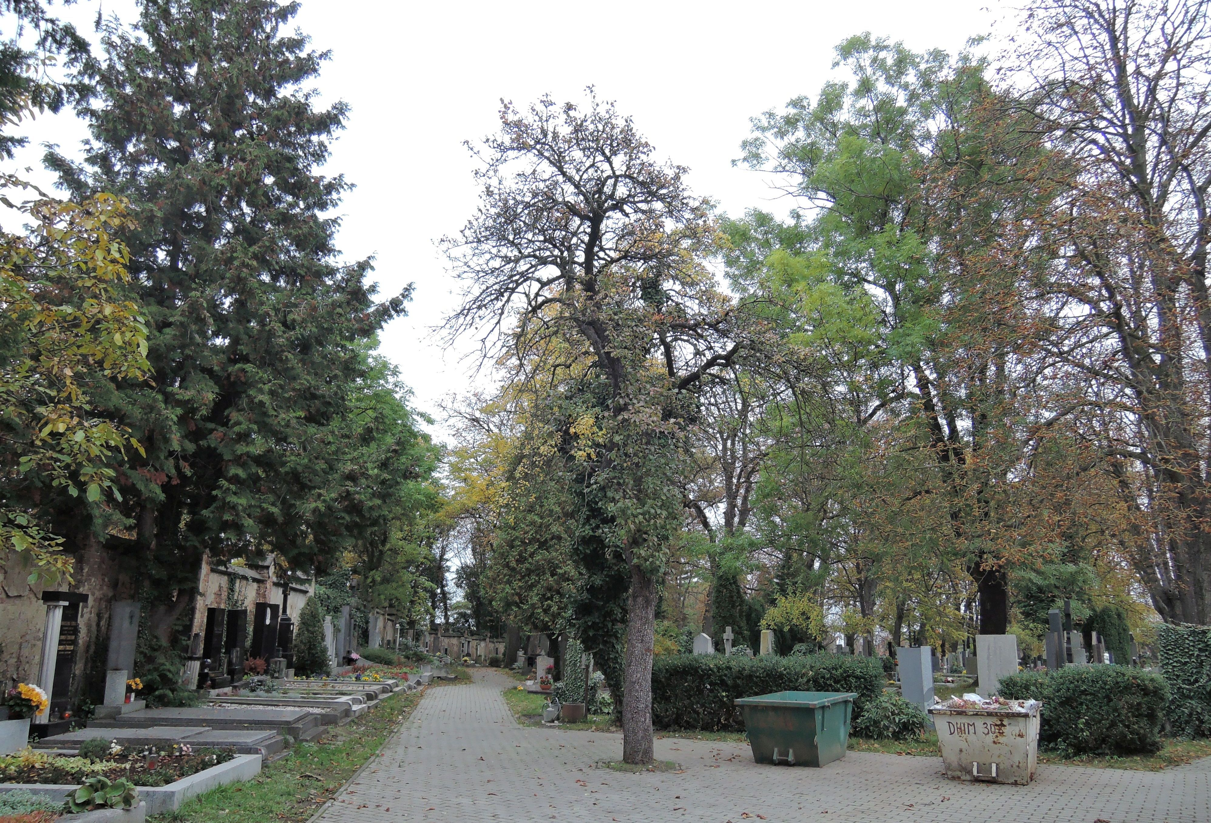 Cemetery in Prague Střešovice, entry part